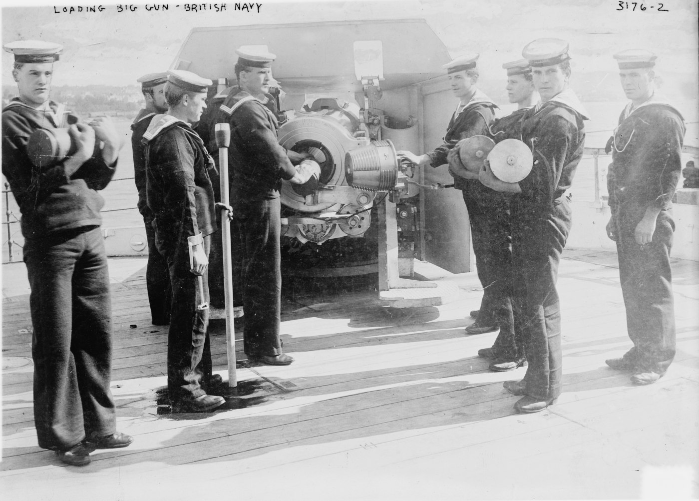 Photograph showing Royal Navy gunners loading a QF 6 inch naval gun on cruiser HMS Ariadne. A shell is on the loading tray ready to be rammed in; 2 men on the right hold cartridge cases; the man on the left holds the next shell. Photograph is believed to have been taken at Halifax, Nova Scotia while Ariadne was with the North America and West Indies squadron.